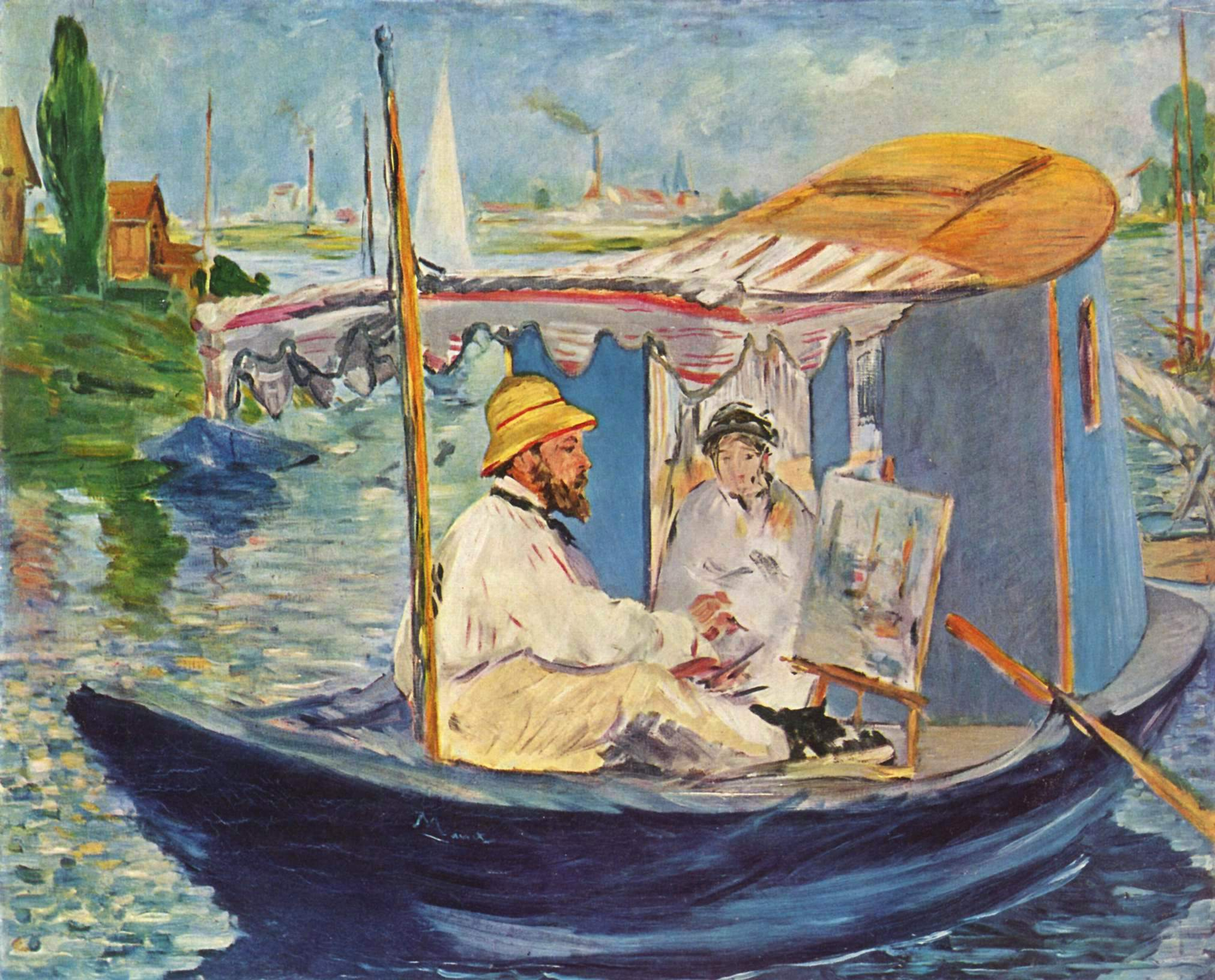 Impressionist portrait of Claude Monet painting, in a boat on the Seine in Argenteuil.